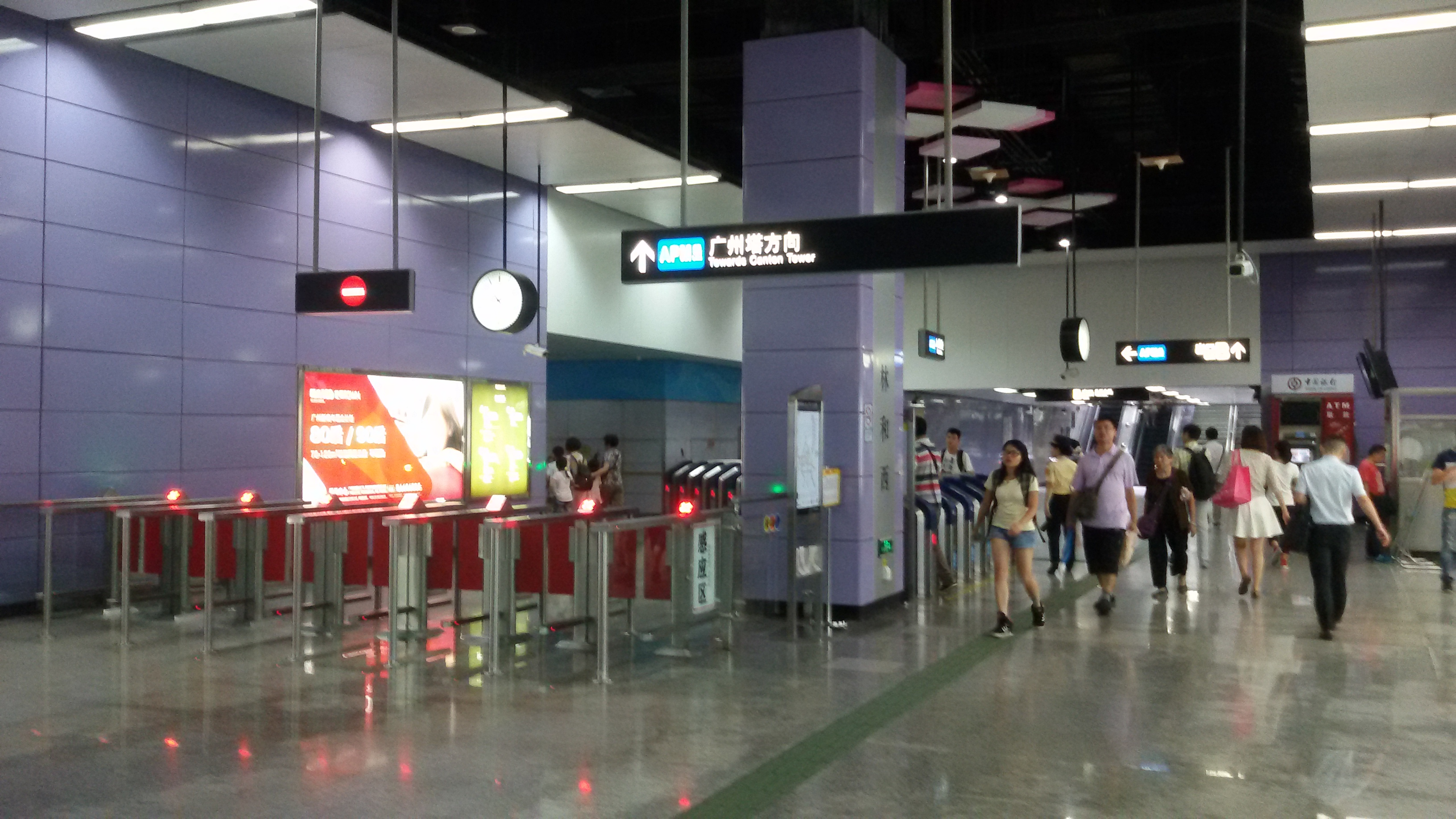 Station concourse for Linhexi Station in APM Line, Guangzhou Metro. 粵語: 林和西站嘅APM綫站廳